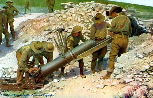 Colourised postcard of Australian troops loading a 9.45 inch trench mortar ("Flying Pig") near Pozières, France, August 1916. Text on back of postcard read "Tommy's nickname for a trench-mortar is 'flying pig' and this picture shows some of our men loading one of these useful weapons". AWM Caption : France: Picardie, Somme, Pozieres. Five members of an Australian trench mortar battery preparing to fire their heavy trench mortar in the Chalk Pit. The gun crew have been identified, left to right, as : Sergeant Daley Albert Roy Kyle Corporal Clift Gunner Lear Gunner Clive Talbot. See Image:Australians Loading 9.45 inch Trench Mortar Somme 2 August 1916.jpg for original monochrome photograph. Comment : The absence of a fuze on the bomb and lack of concealment indicates this is a training or publicity photograph away from the front line.